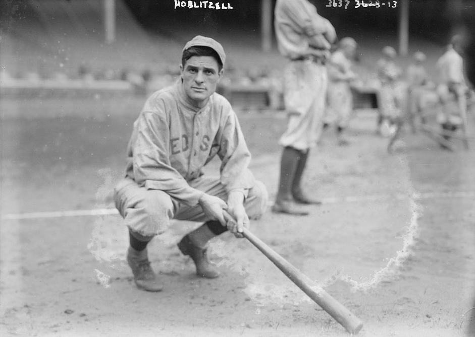 Major League Baseball player Dick Hoblitzel of the Boston Red Sox.